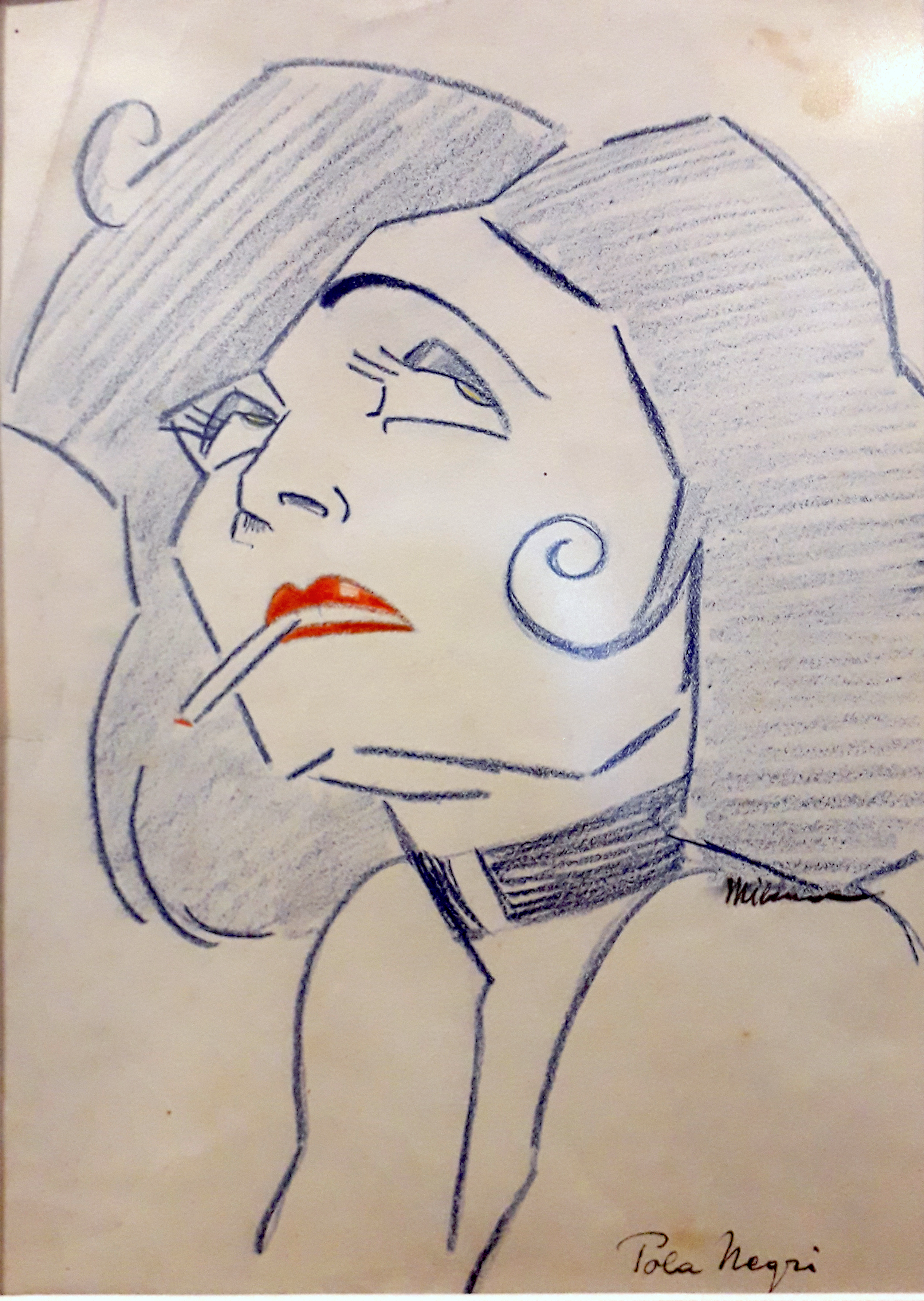 A drawing of Pola Negri, by Milena Pavlović-Barili, the most notable female artist of Serbian modernism.